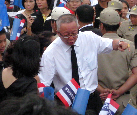 Sondhi Limthongkul, one of PAD leaders, in the funerfal of Ms. Ankana Radabpanyawut (อังคณา ระดับปัญญาวุฒิ) - the victim of October 7 Incedent, at Wat Sri Prawat, Nontaburi on October 13, 2008.